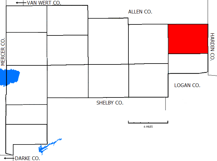 Taken from the Auglaize County map provided by Prinzwilhelm, who claimed that the original map was "self-created based on U.S. Government Census Maps and Date," and modified by myself to show the highlighted township.